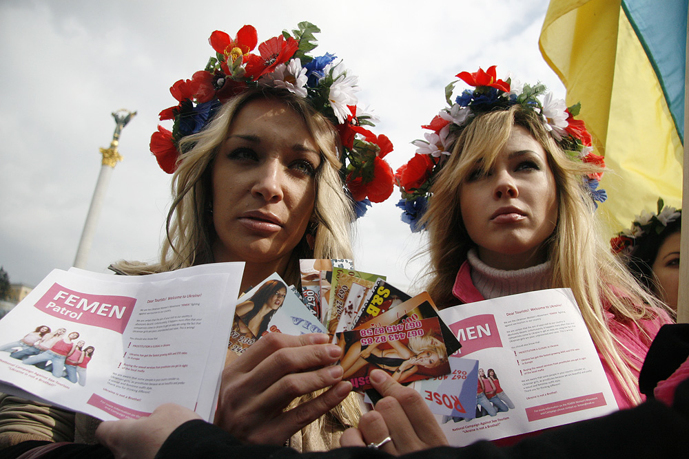 17 April 2010 FEMEN activists show flyers and business cards promoting sex services as they patrol Kyiv Centre. The aim of the patrol is to raise awareness among tourists on the problem of sex-tourism and prostitution in Ukraine.